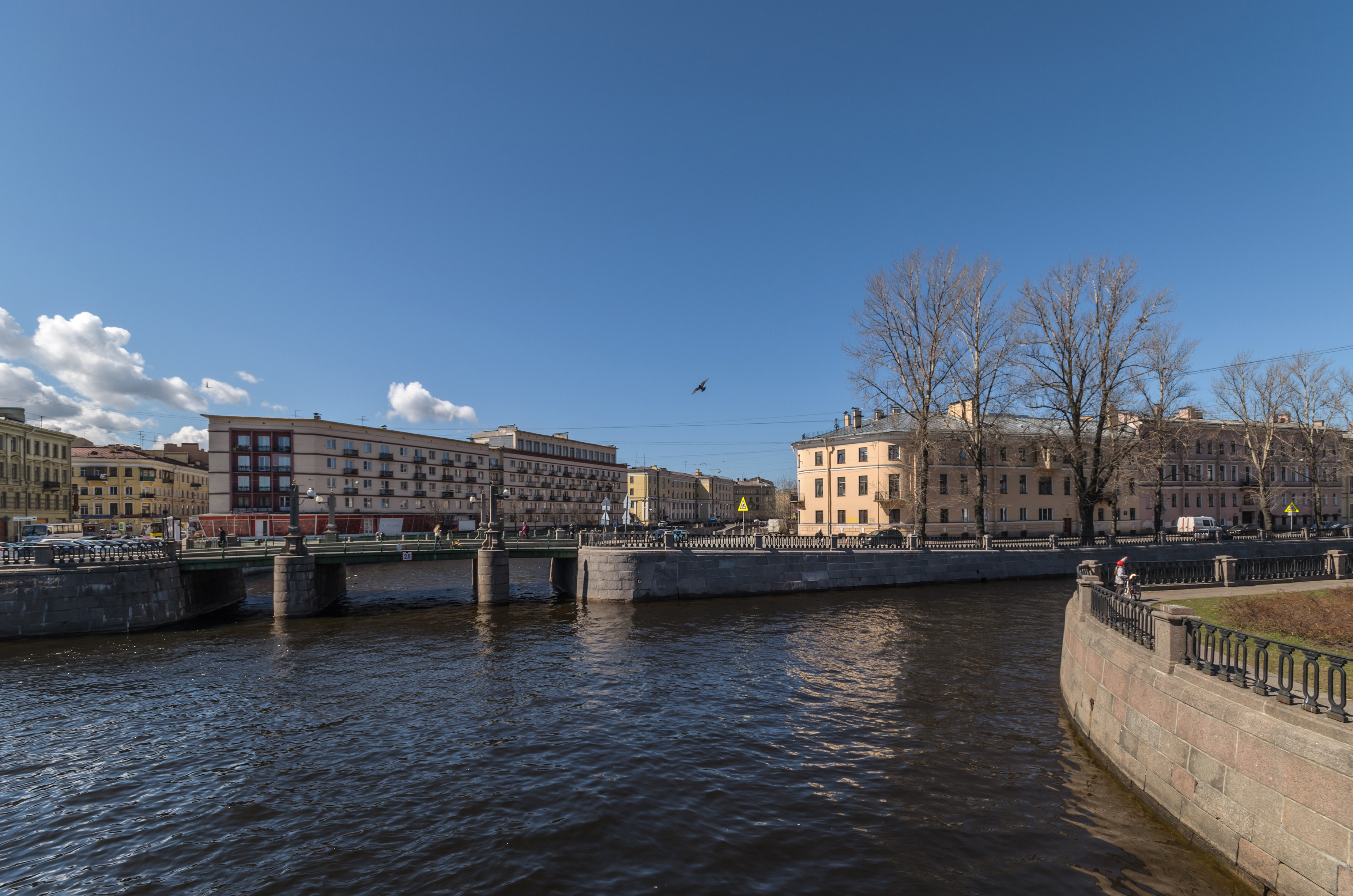 Griboedov and Krukov channels crossing. Saint Petersburg